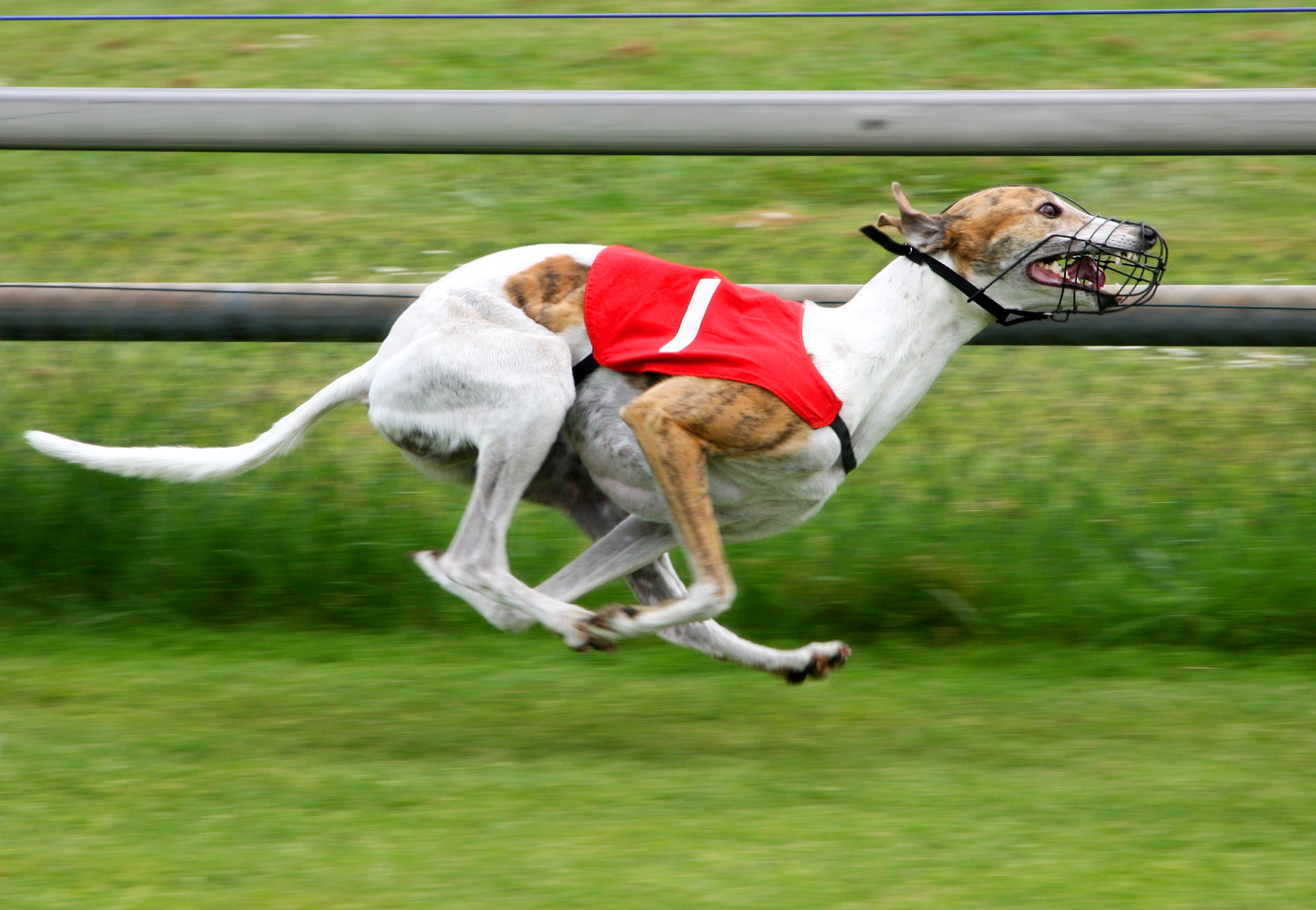 Greyhound racing